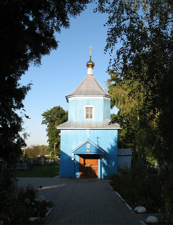 Orthodox church in Turov, Gomel province, Belarus.